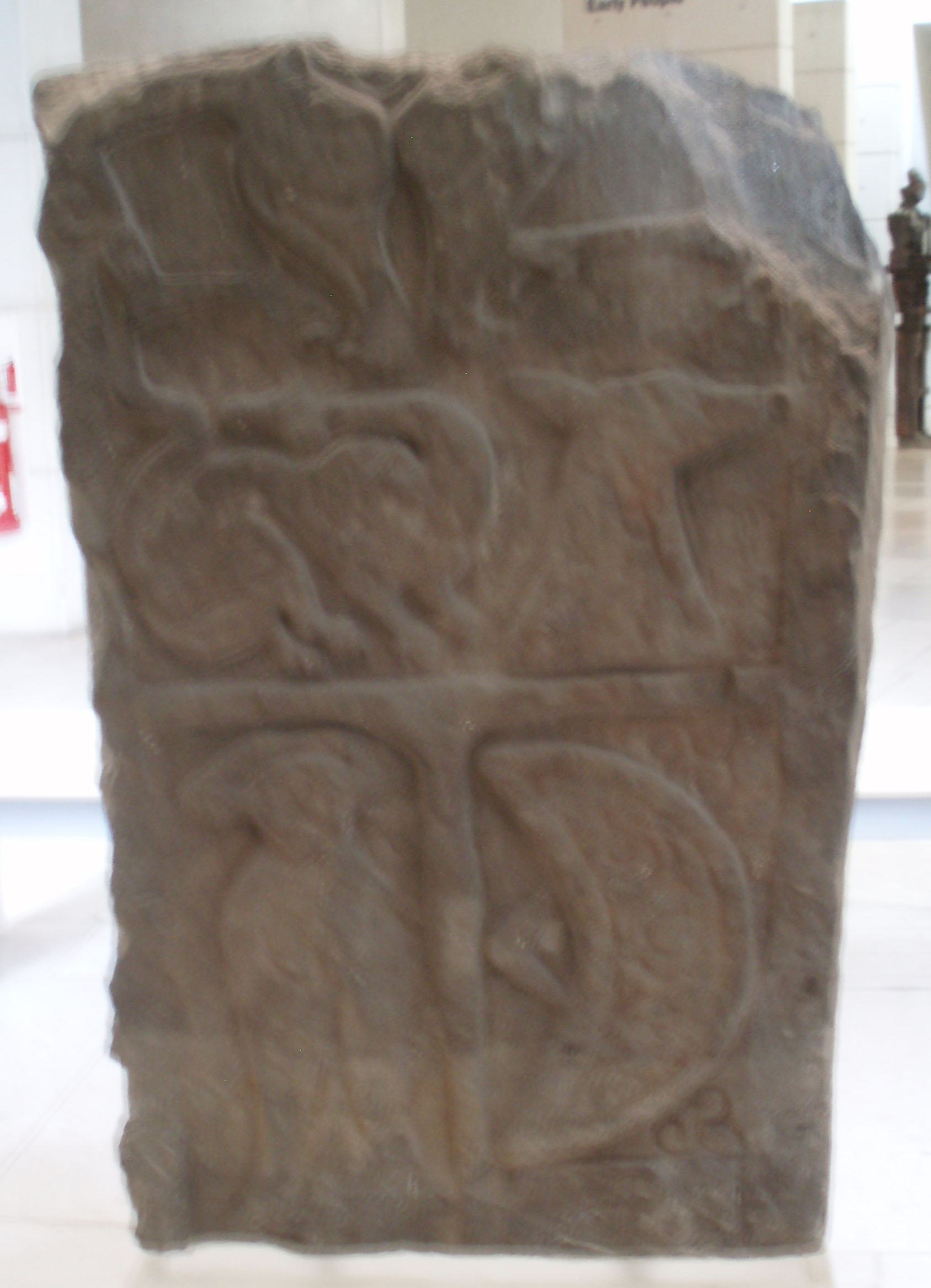 Monifieth2 rear, class II pictish stone